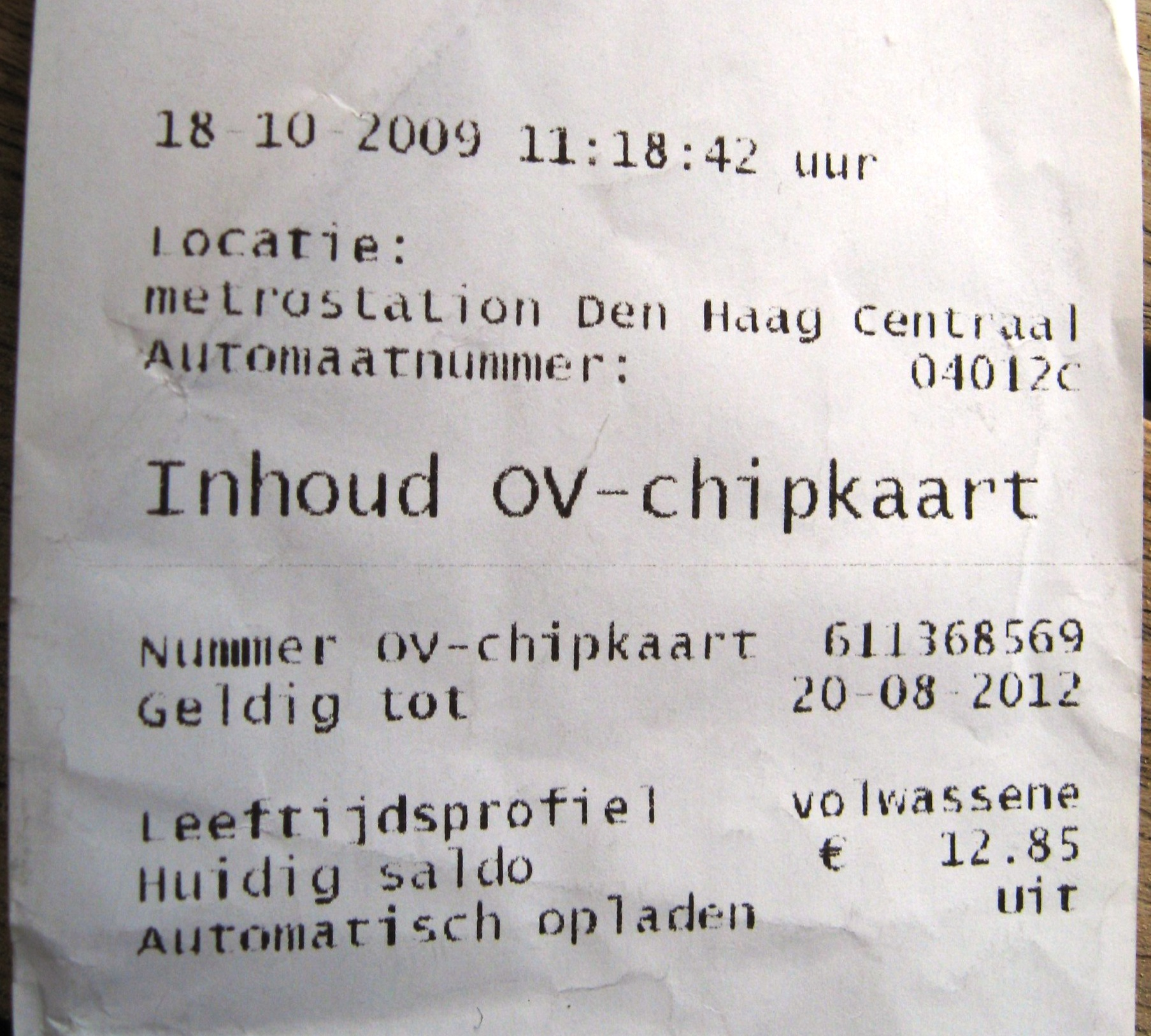 Extract of the OV-chip transactions